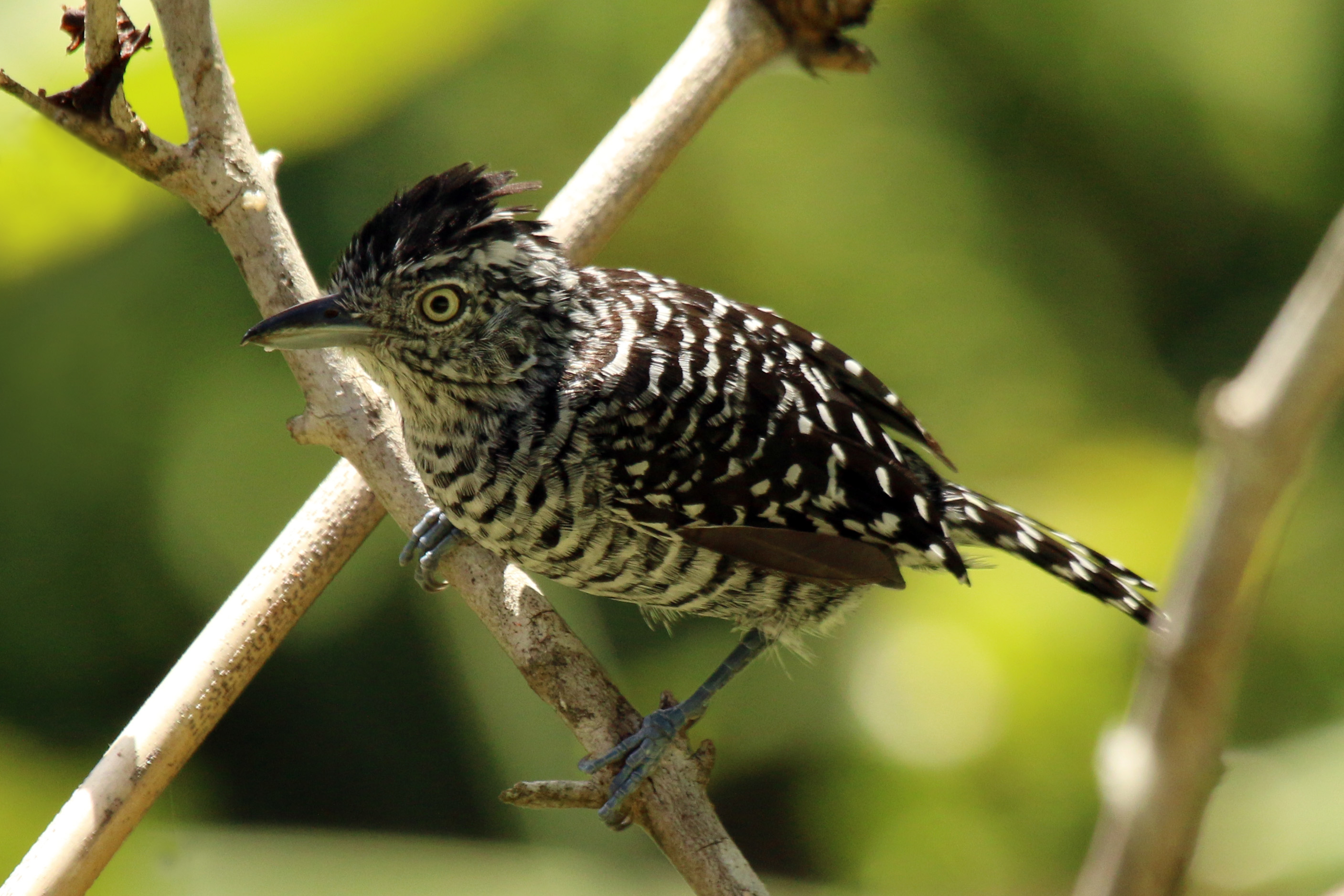 Barred antshrike (Thamnophilus doliatus tobagensis) male, Tobago